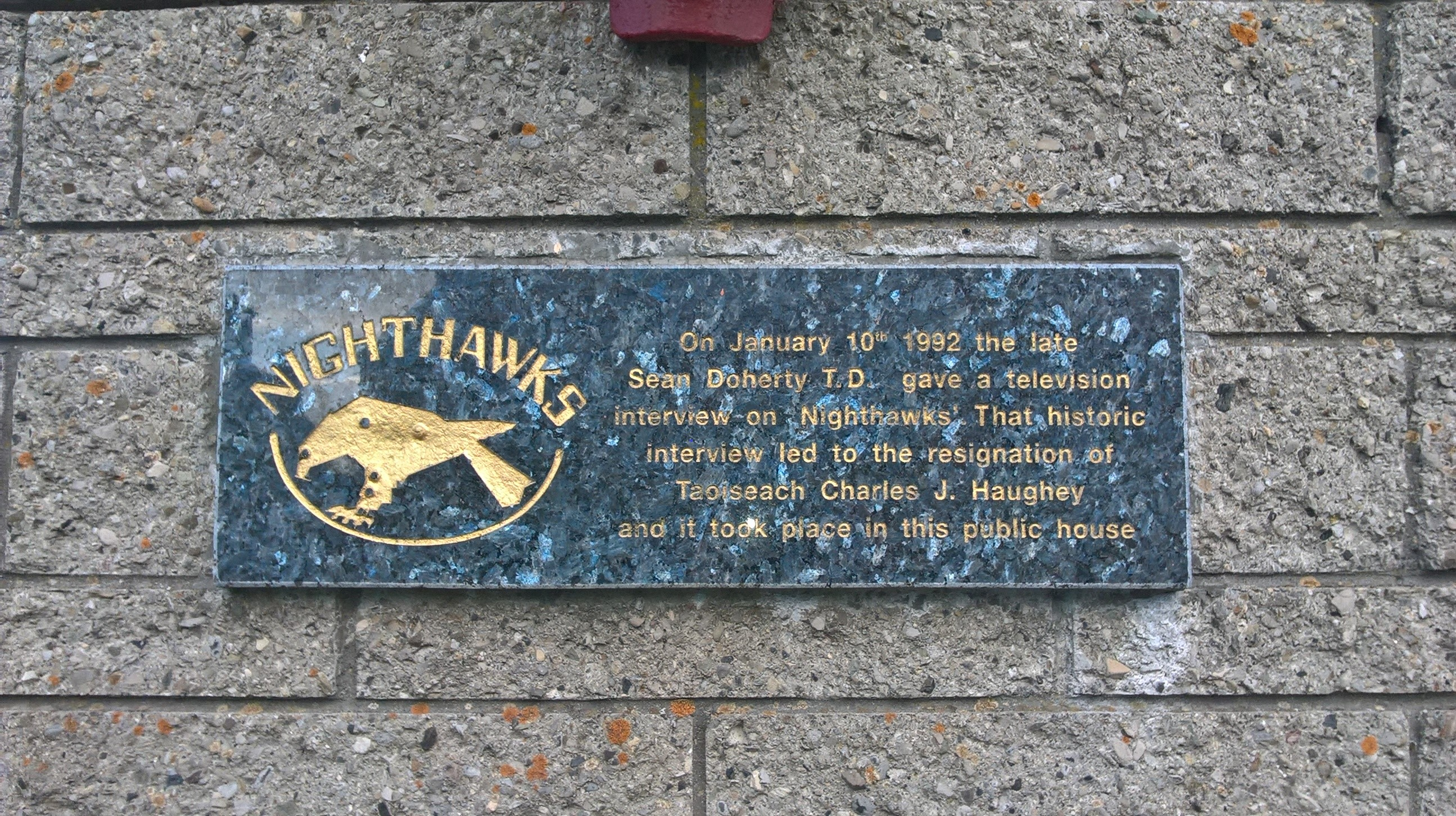 Plaque at former Hells Kitchen pub Castlerea (2018).